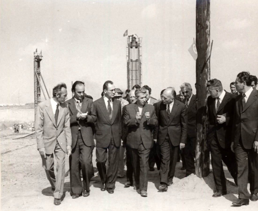 Călăraşi steel works.